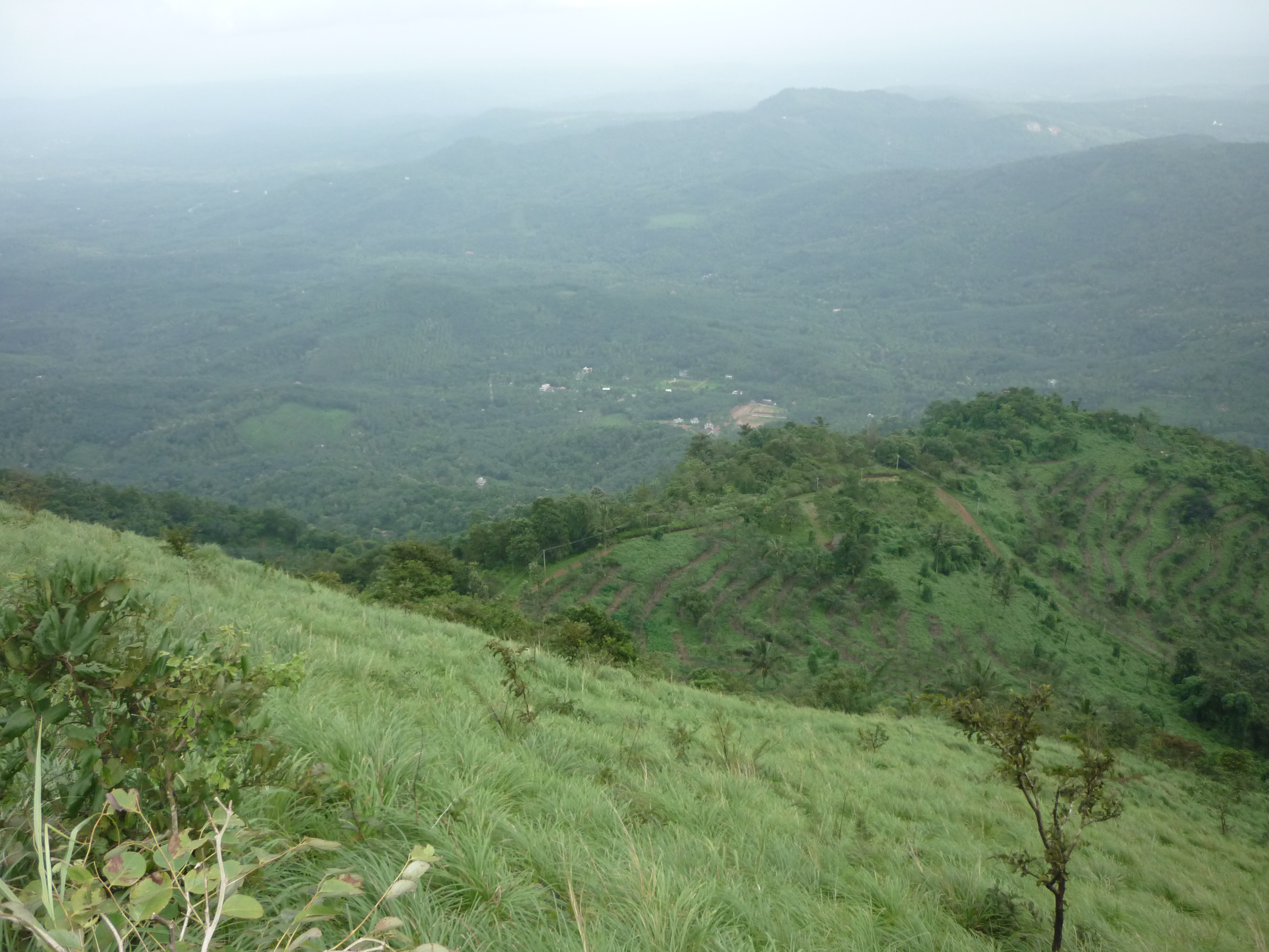 പാലക്കയംതട്ട്